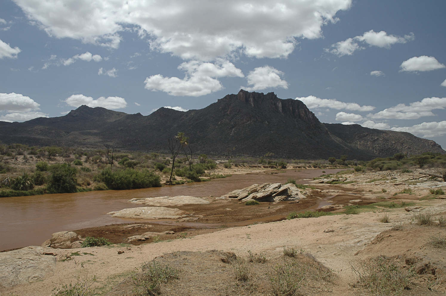 View of the Ewaso N'giro River in Kenya